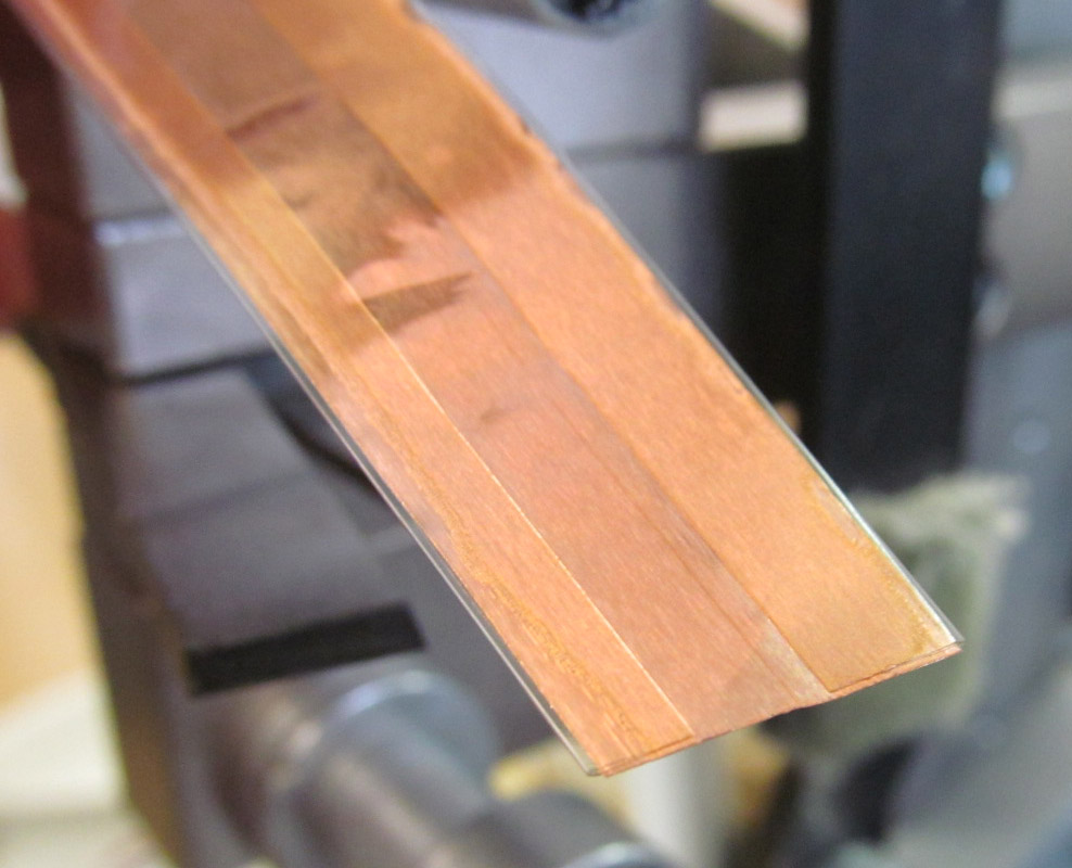 copper strip